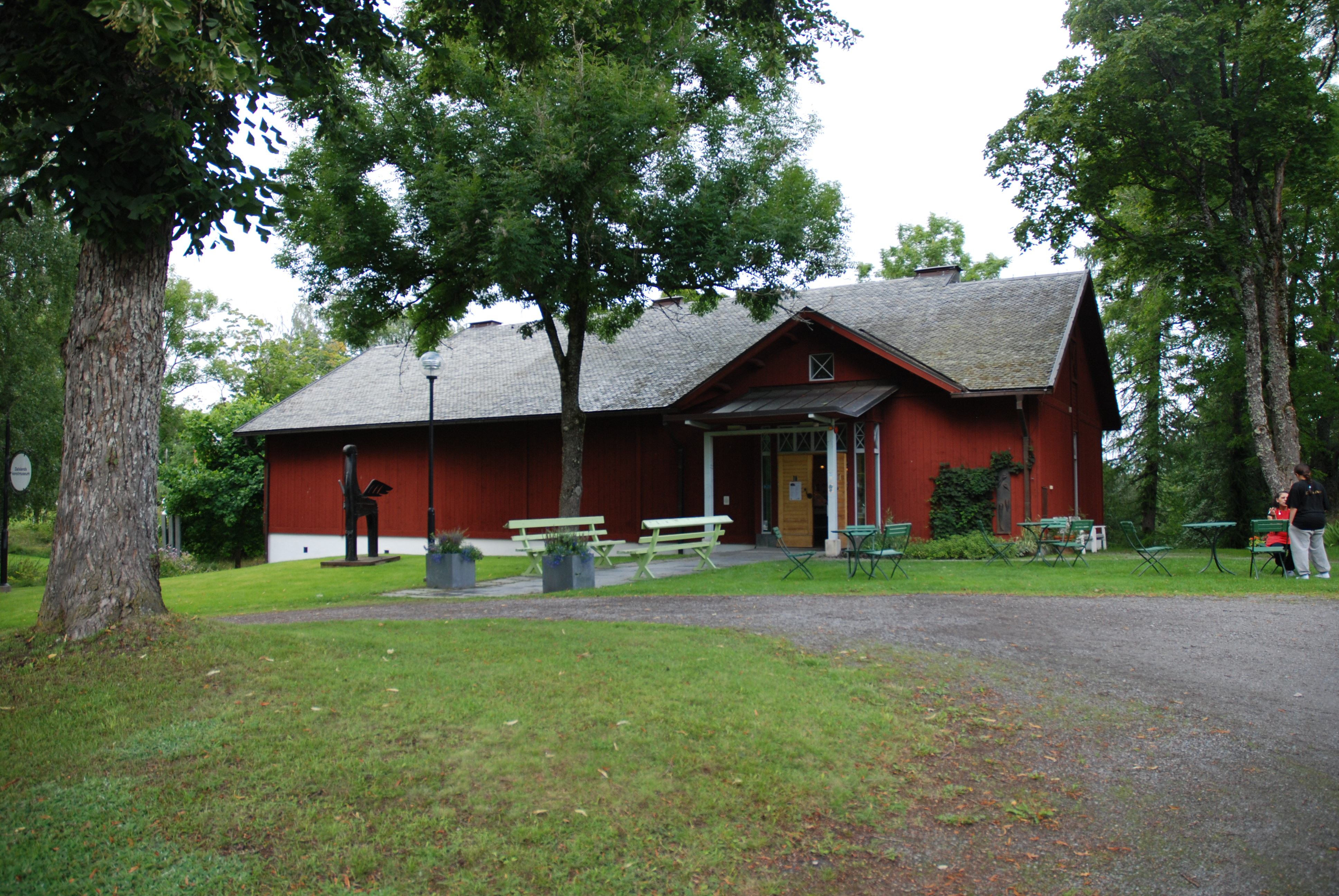 Dalslands konstmuseum